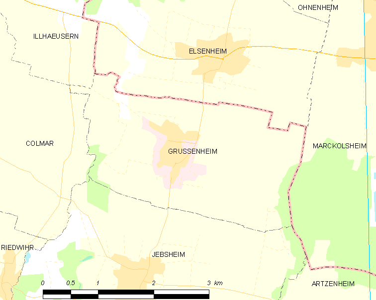 Map of French municipality